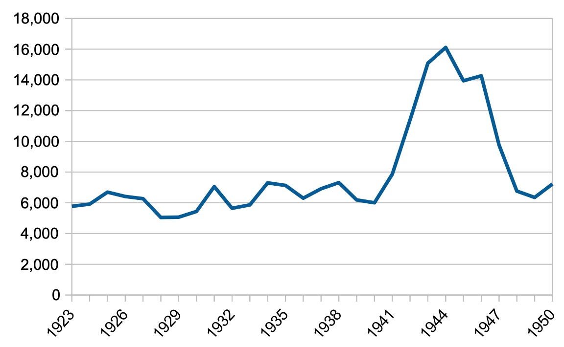 Te Kauwhata railway station passenger use 1923-1950 based on Statements of Traffic and Revenue for each Station for the Years ended 31st March